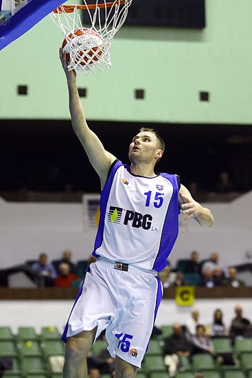 Polish basketball player Wojciech Szawarski